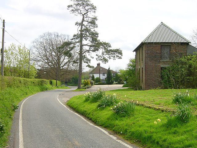 Ringlestone Inn. The building is said to date from 1533, originally a hospice for monks it became an 'ale house' around 1615 and still retains the original flint and brick walls, floors, oak beams and inglenooks.